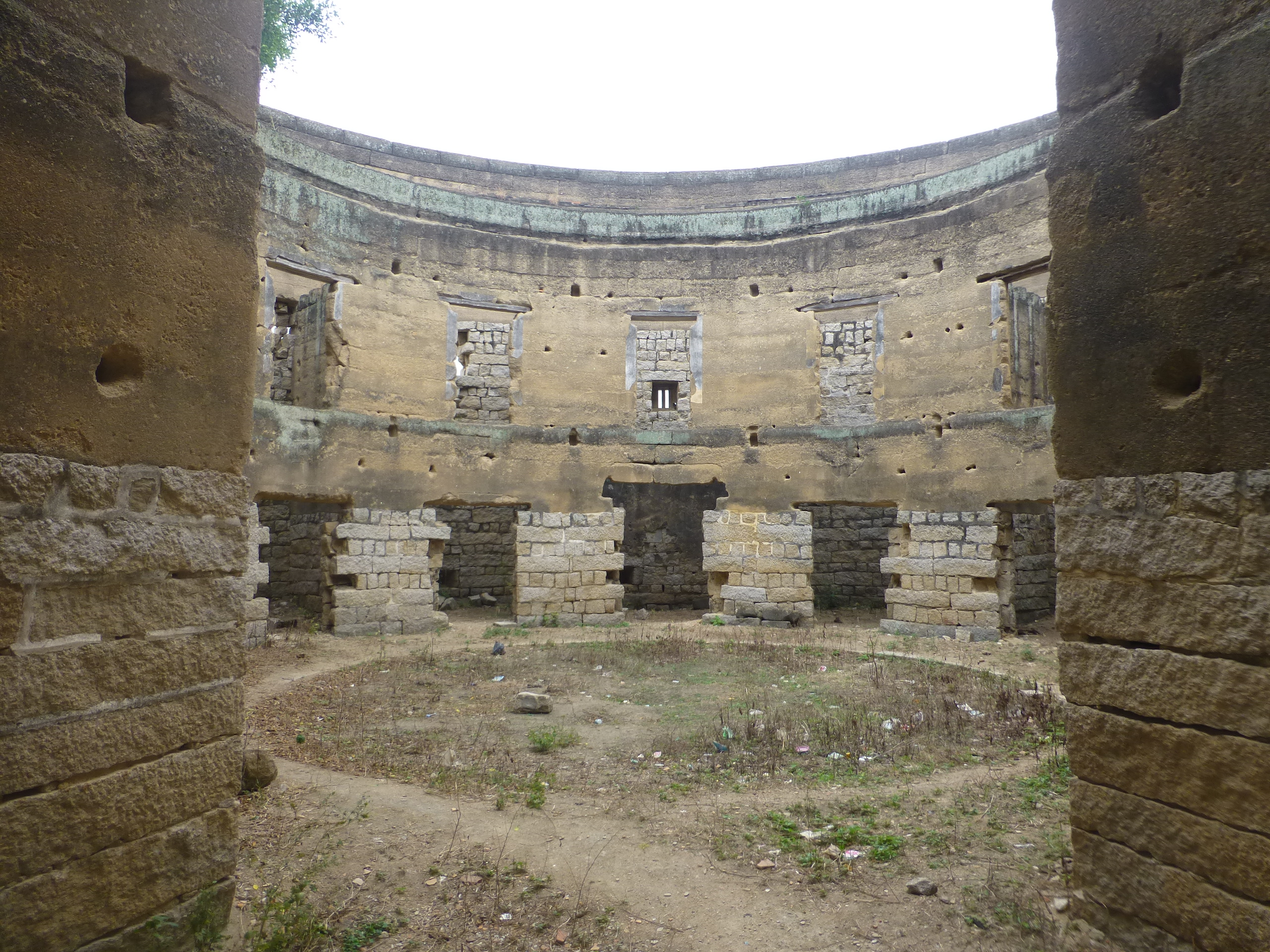 Inside the Rui'an Lou